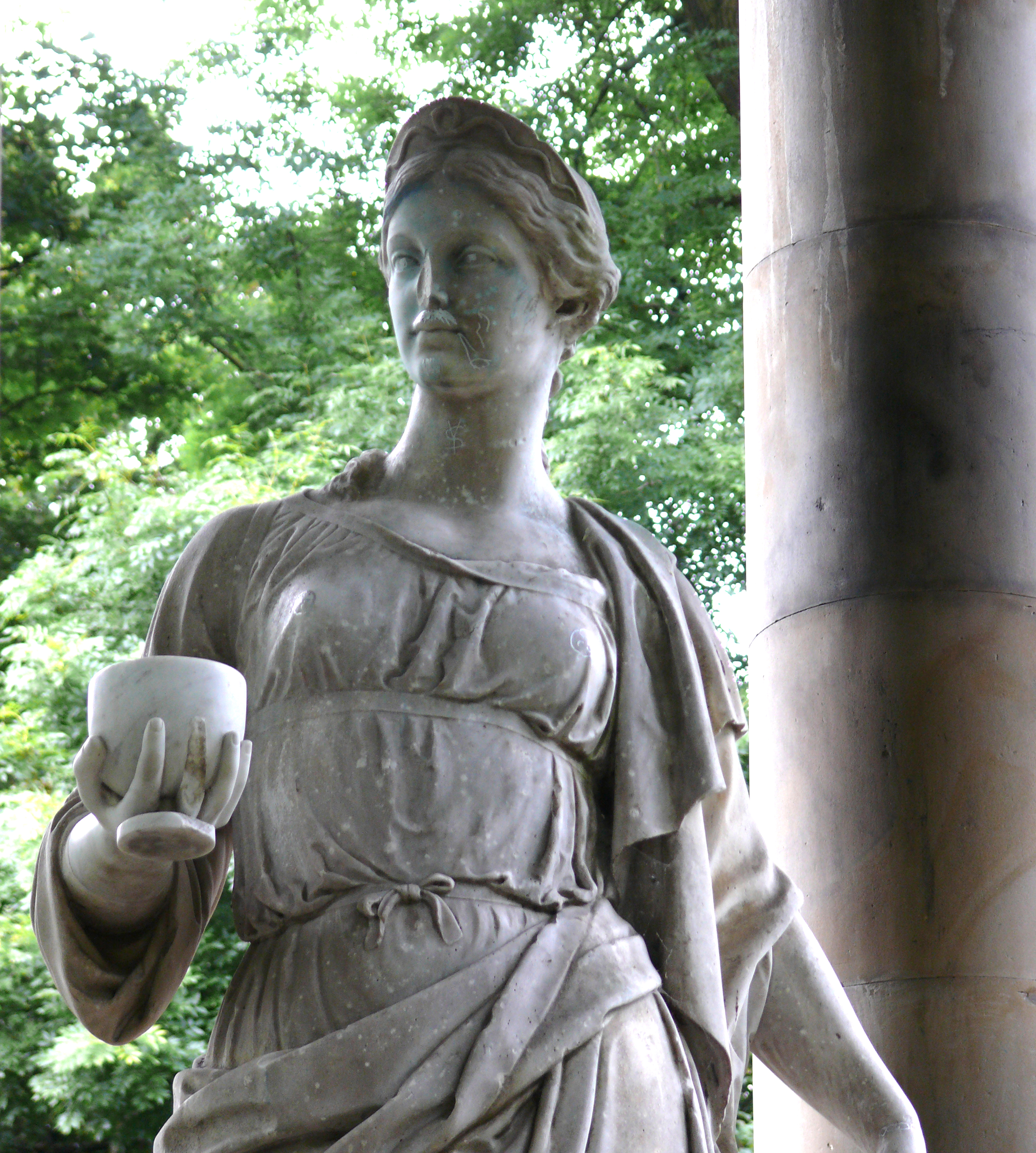 St Bernard's Well, a mineral water well on the south bank of the Water of Leith, in an estate once known as St Bernard's. It is in the shape of a circular temple supported by ten tall Doric order columns, with a statue made in 1791 from Coade stone of Hygieia, the Greek goddess of health, in the centre.